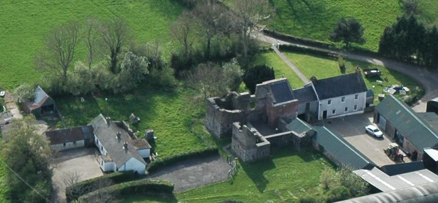 Mountjoy castle. Taken By Wilfred Dilworth